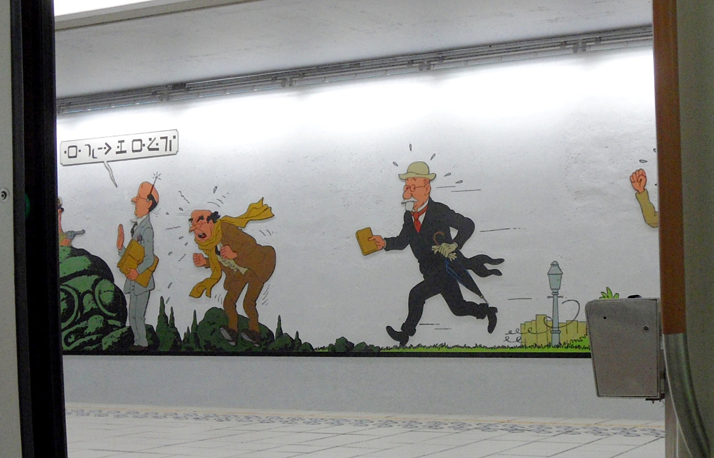 Brussels (Stockel): Metro station Stockel/Stokkel, mural detail; August 2015